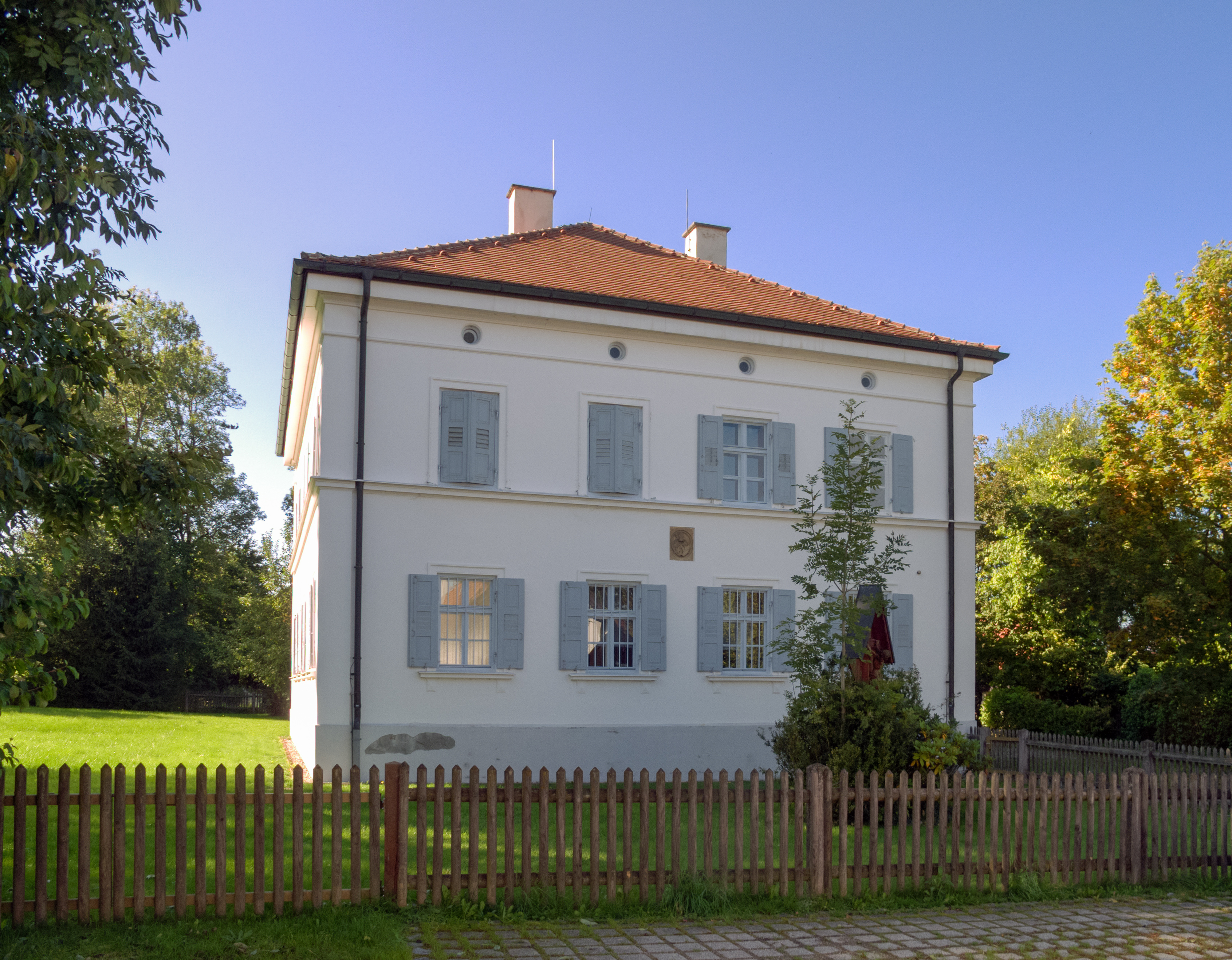 This is a photograph of an architectural monument.